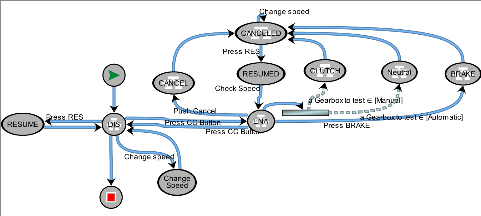 Test Model of MaTeLo Model-Based Testing tool